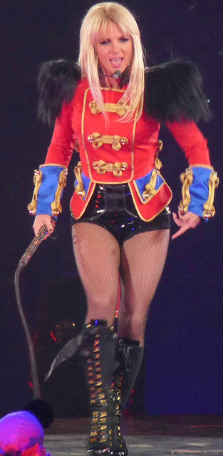 Spears performing Circus